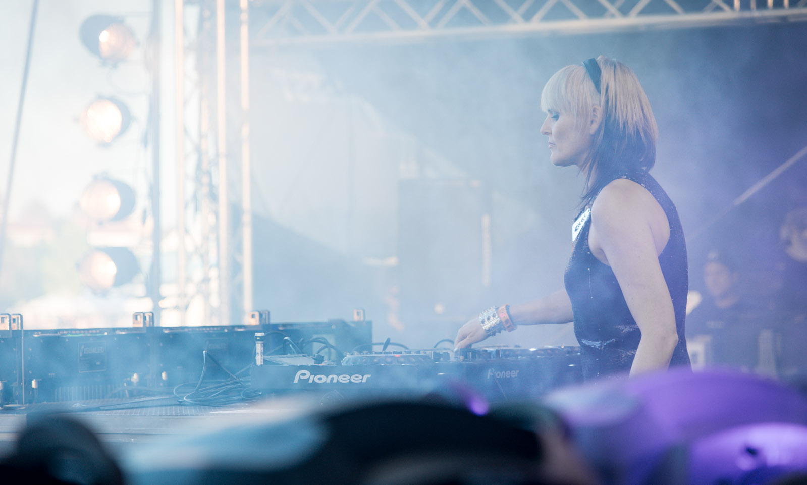 Sister Bliss at Palmesus 2013